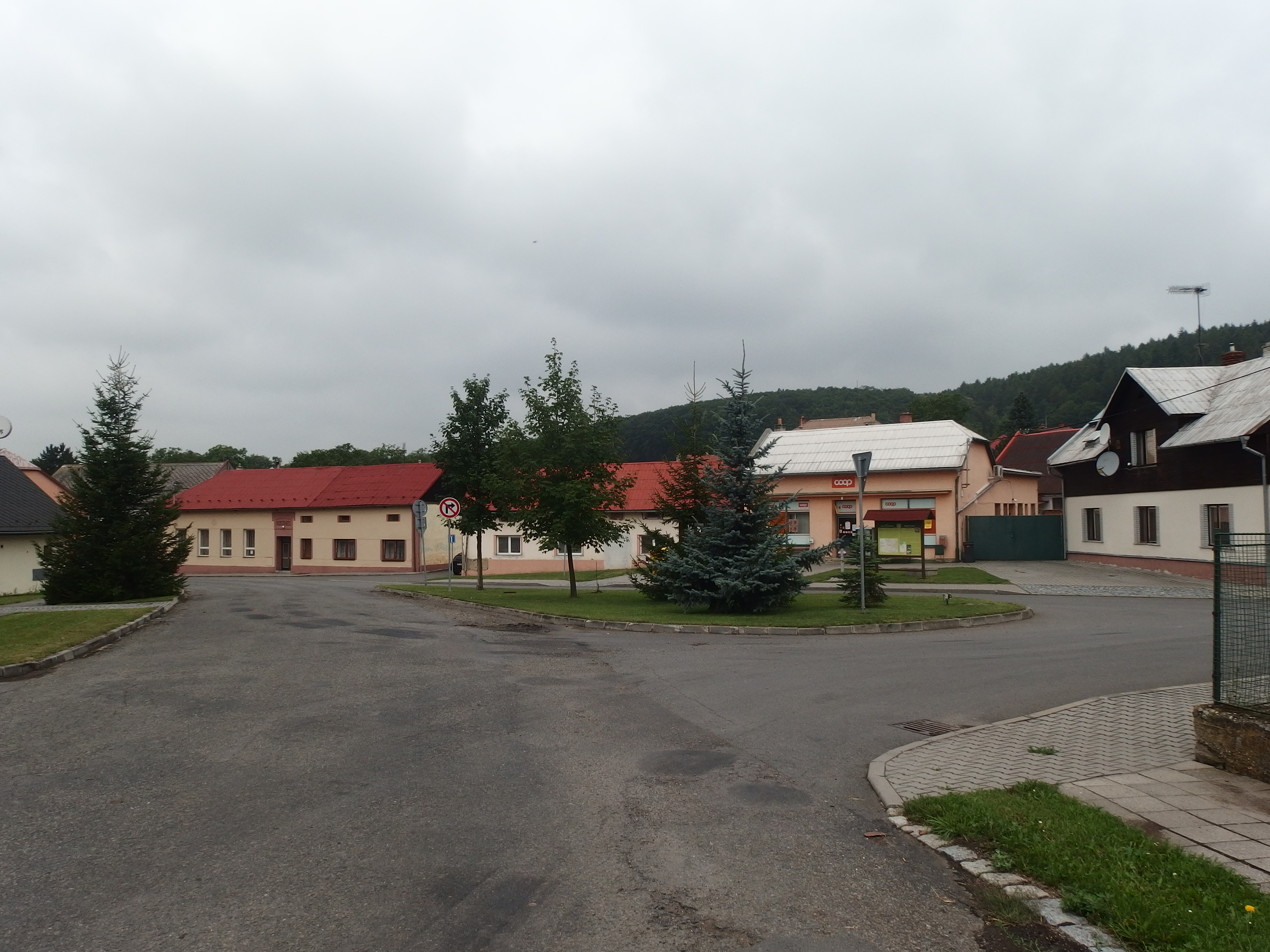 Pacetluky, Kroměříž District, Czech Republic.